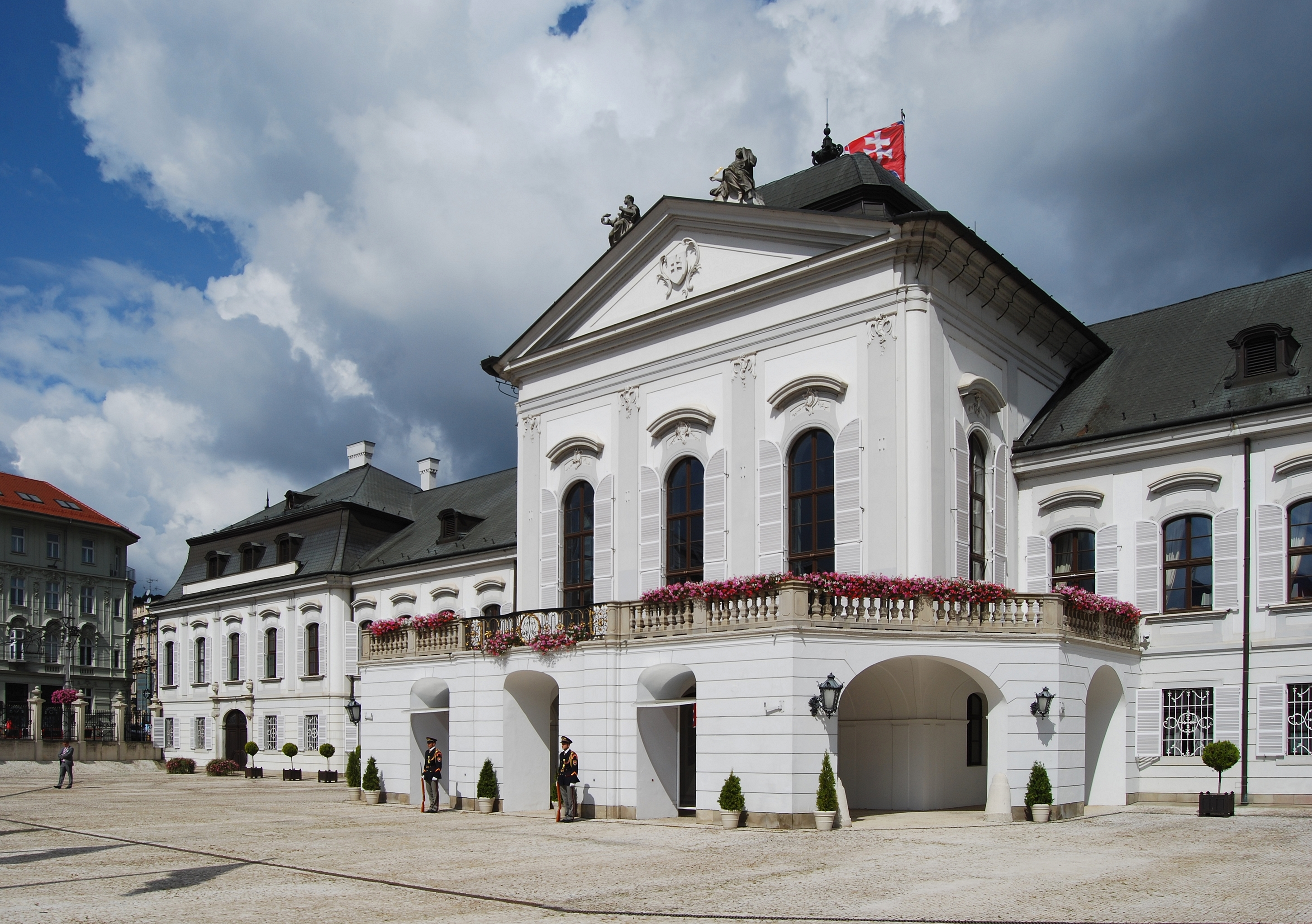 The Grassalkovich Palace in Bratislava, the residence of the President of the Slovak Republic.